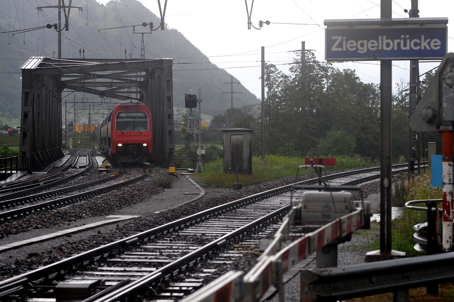 SBB bridge crossing the Linth Channel in Ziegelbrücke; St. Gallen and Glarus, Switzerland.